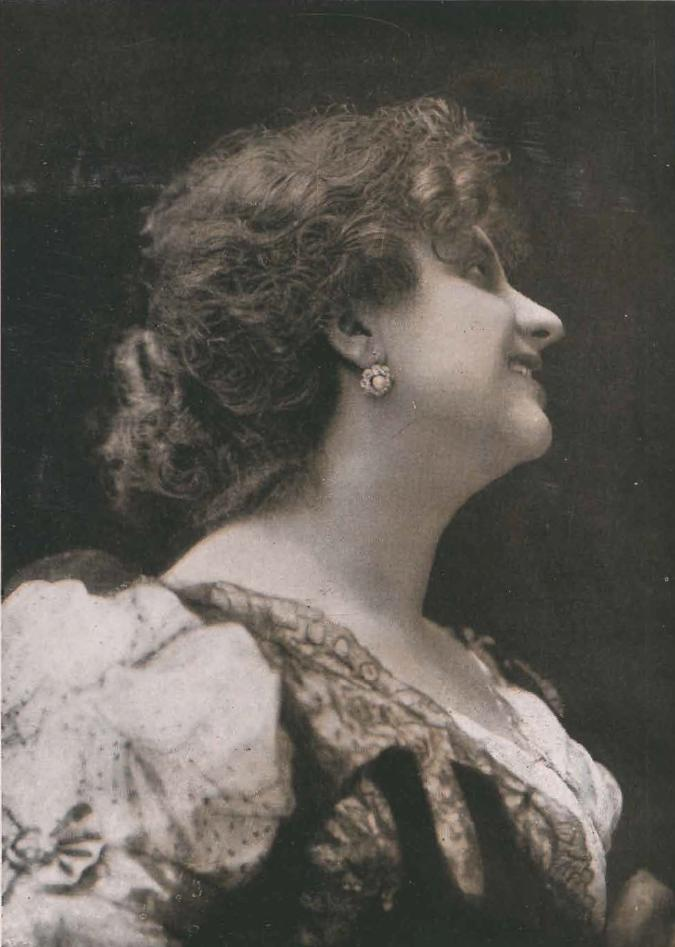 Rosina Storchio, Italian soprano